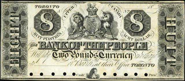 Eight dollar currency note issued by Toronto's Bank of the People in Upper Canada (now Ontario)